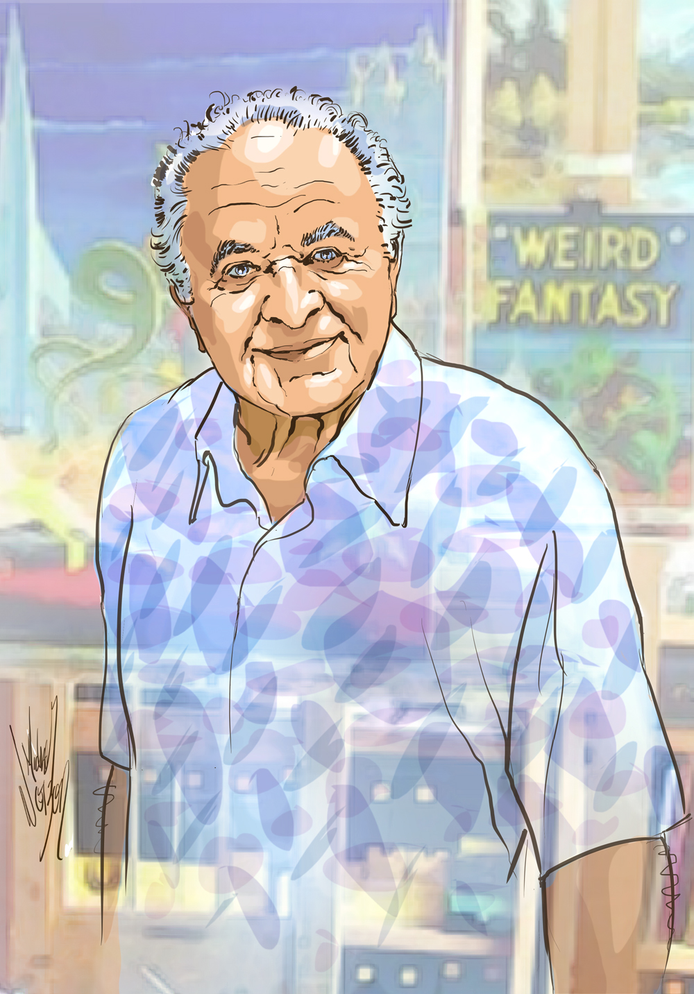 Portrait of Golden Age comics artist and painter Al Feldstein, from Michael Netzer's Portraits of the Creators Sketchbook.